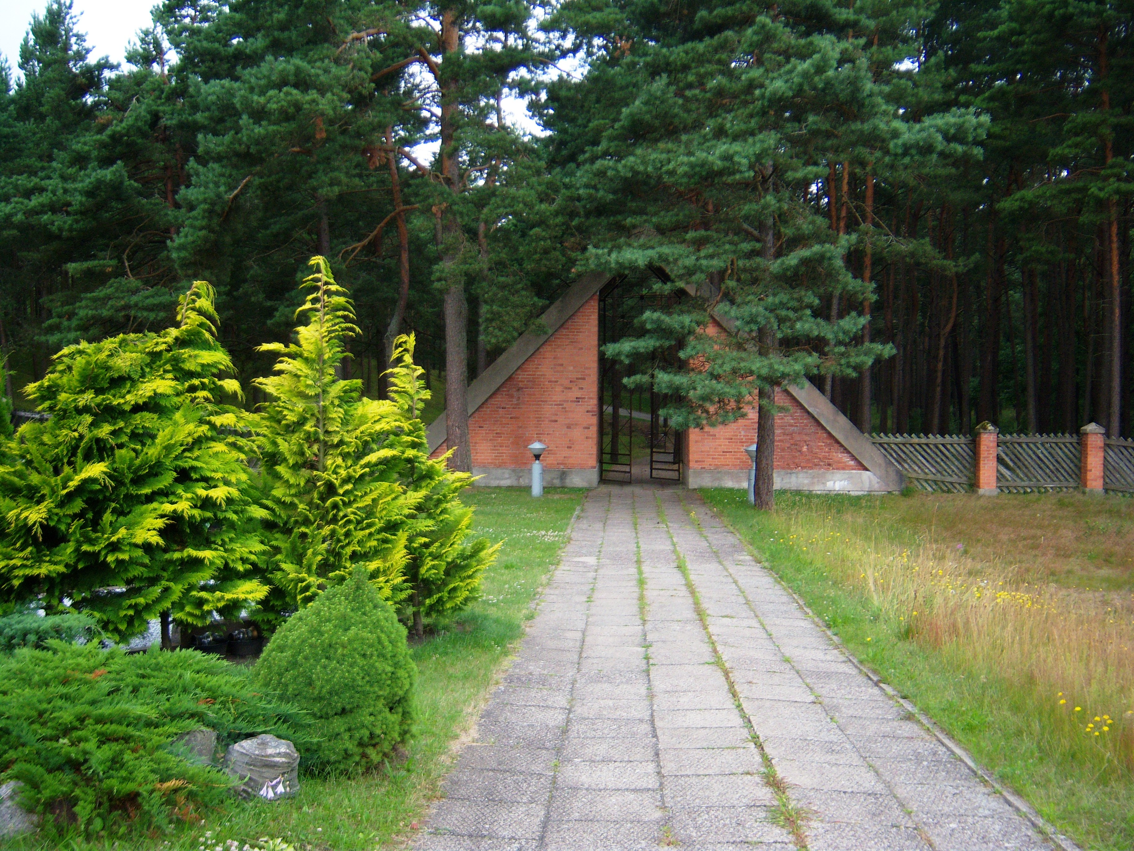 New cemetery in Nida, gates. Lithuania